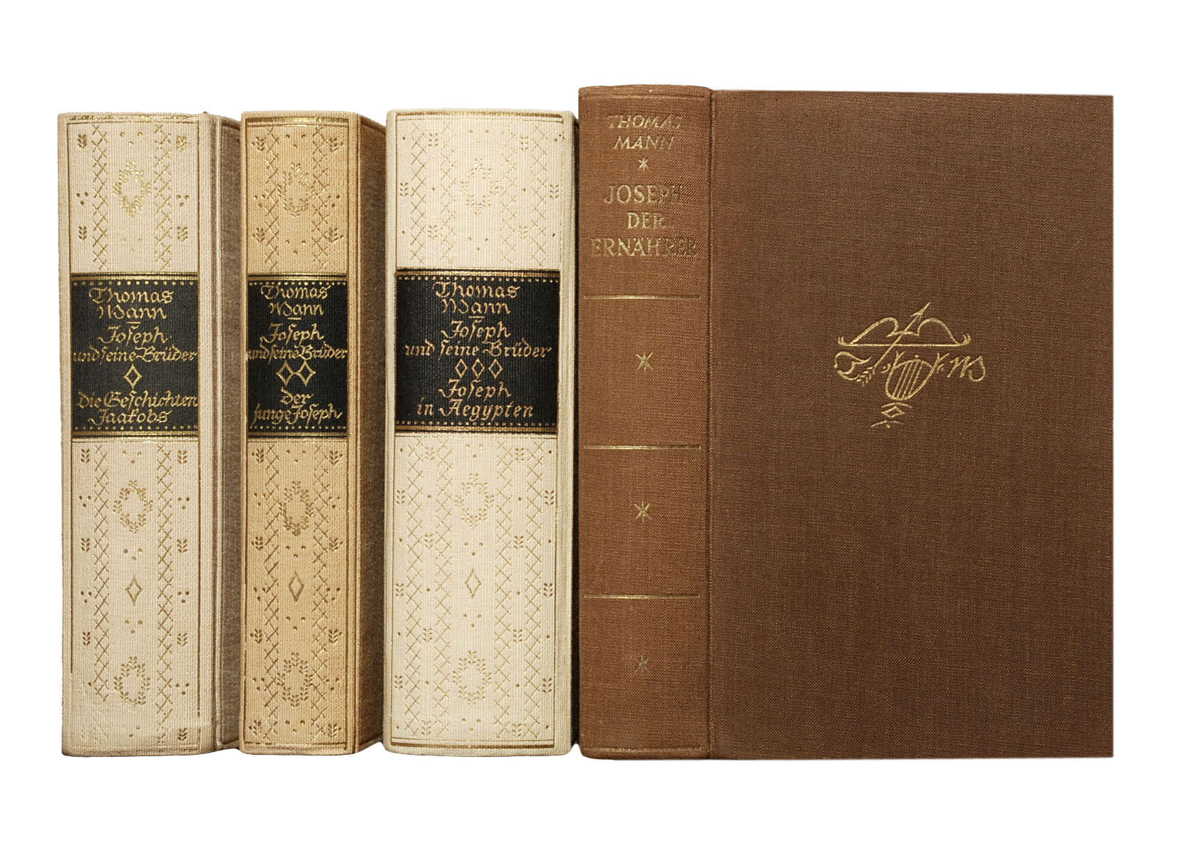 Thomas Mann: Joseph and His Brothers. First editions 1933, 1934, 1936, 1943.